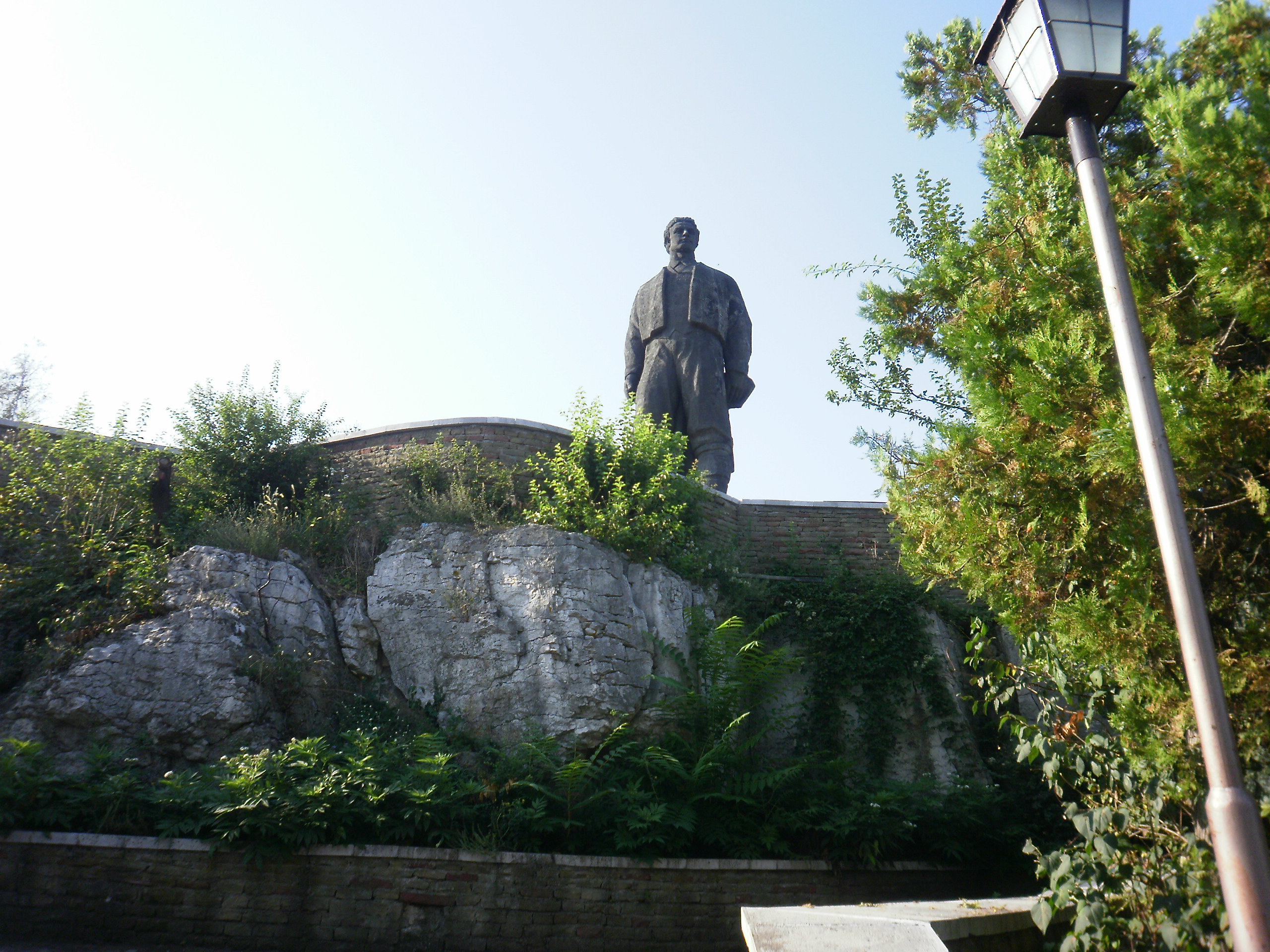 Vasil Levski monument, Lovech, Bulgaria.